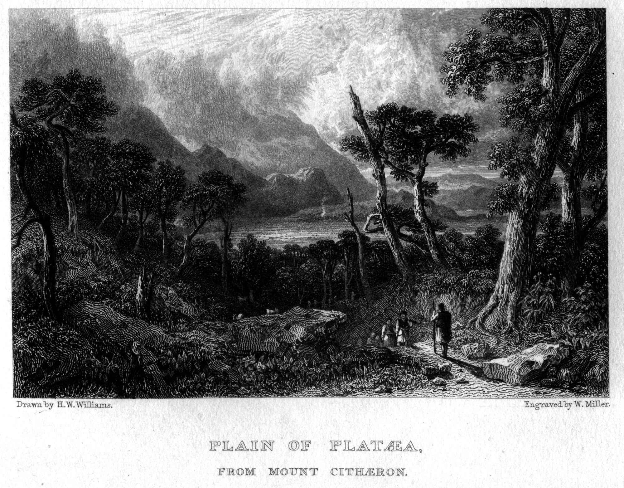 Plain of Plataea, from Mount Cithaeron engraving by William Miller after H W Williams (Miller paid £12-12-0 in x 1824 for engraving), published in Select Views In Greece With Classical Illustrations. Williams, Hugh William. London: Longman Rees Orme Brown and Green; and Adam Black. 1829